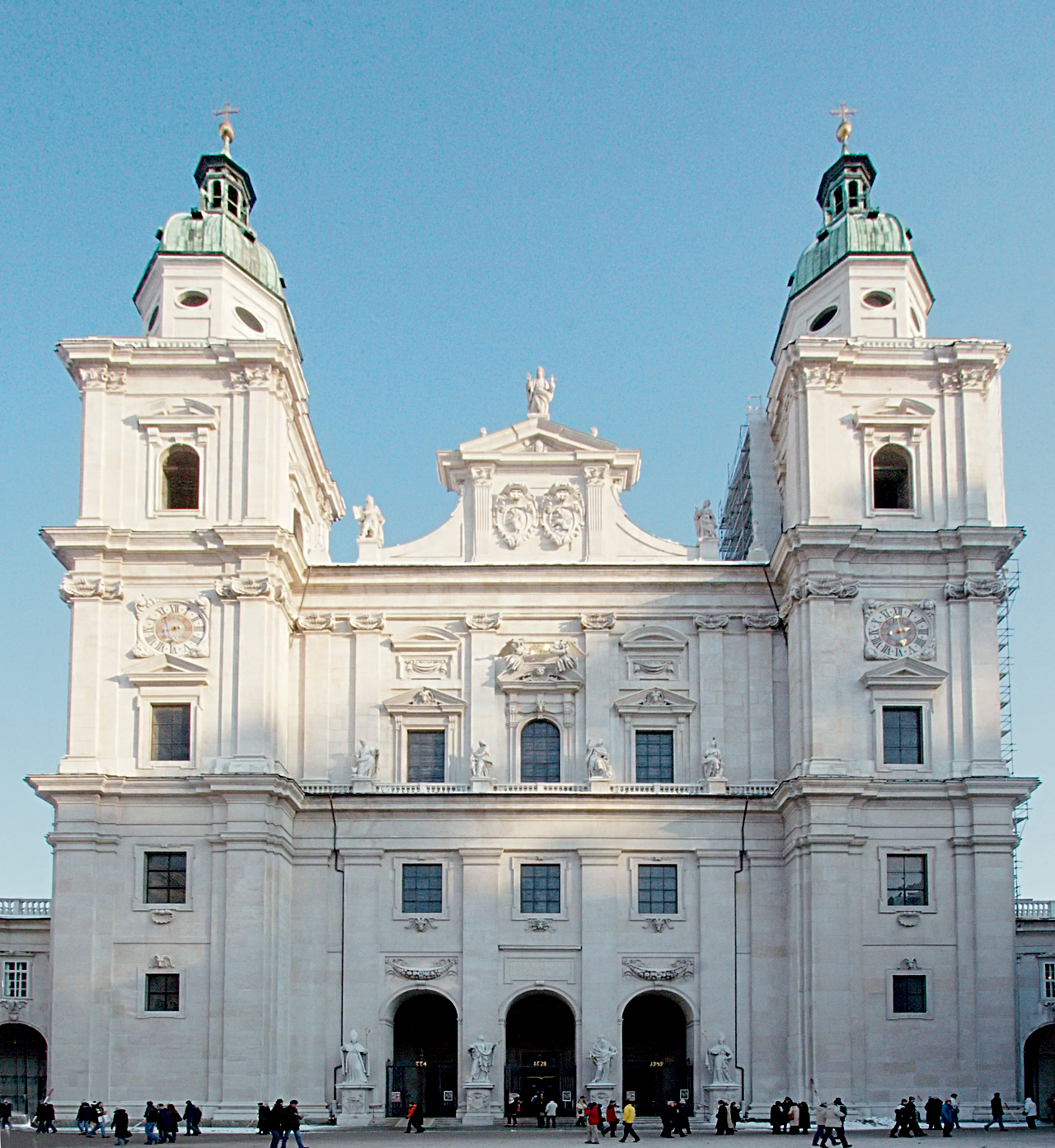 Frontview of the Cathedral in Salzburg